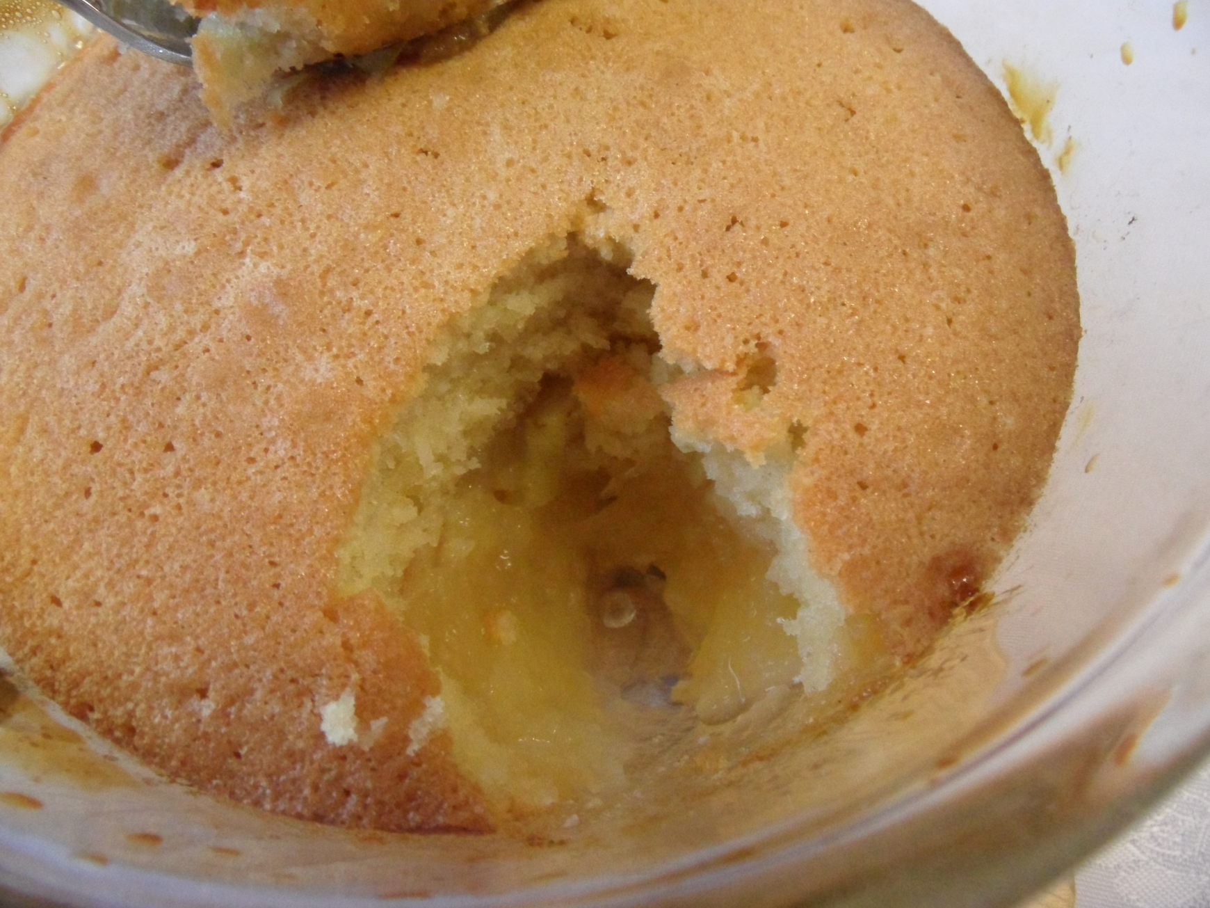 An Eve's pudding, showing the layer of fruit and sponge (made by the photographer).